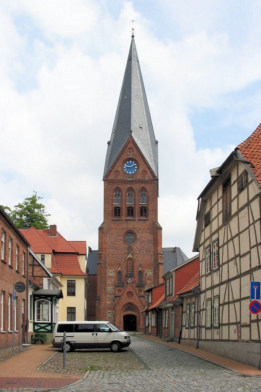 Lutheran church in Hagenow, disctrict Ludwigslust, Mecklenburg-Vorpommern, Germany